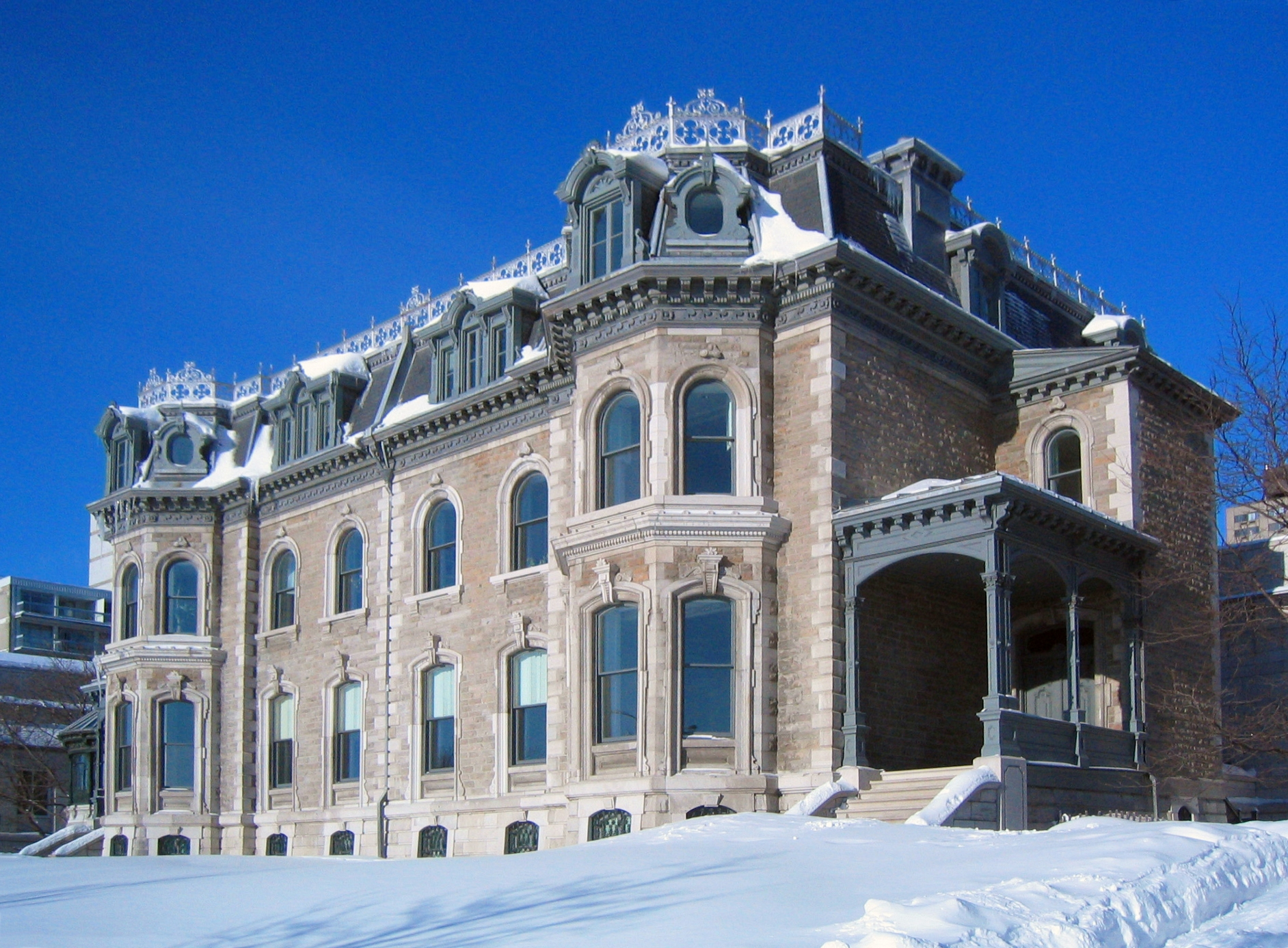 Shaughnessy House (Canadian Centre for Architecture) Montreal. Photographed in 2008.